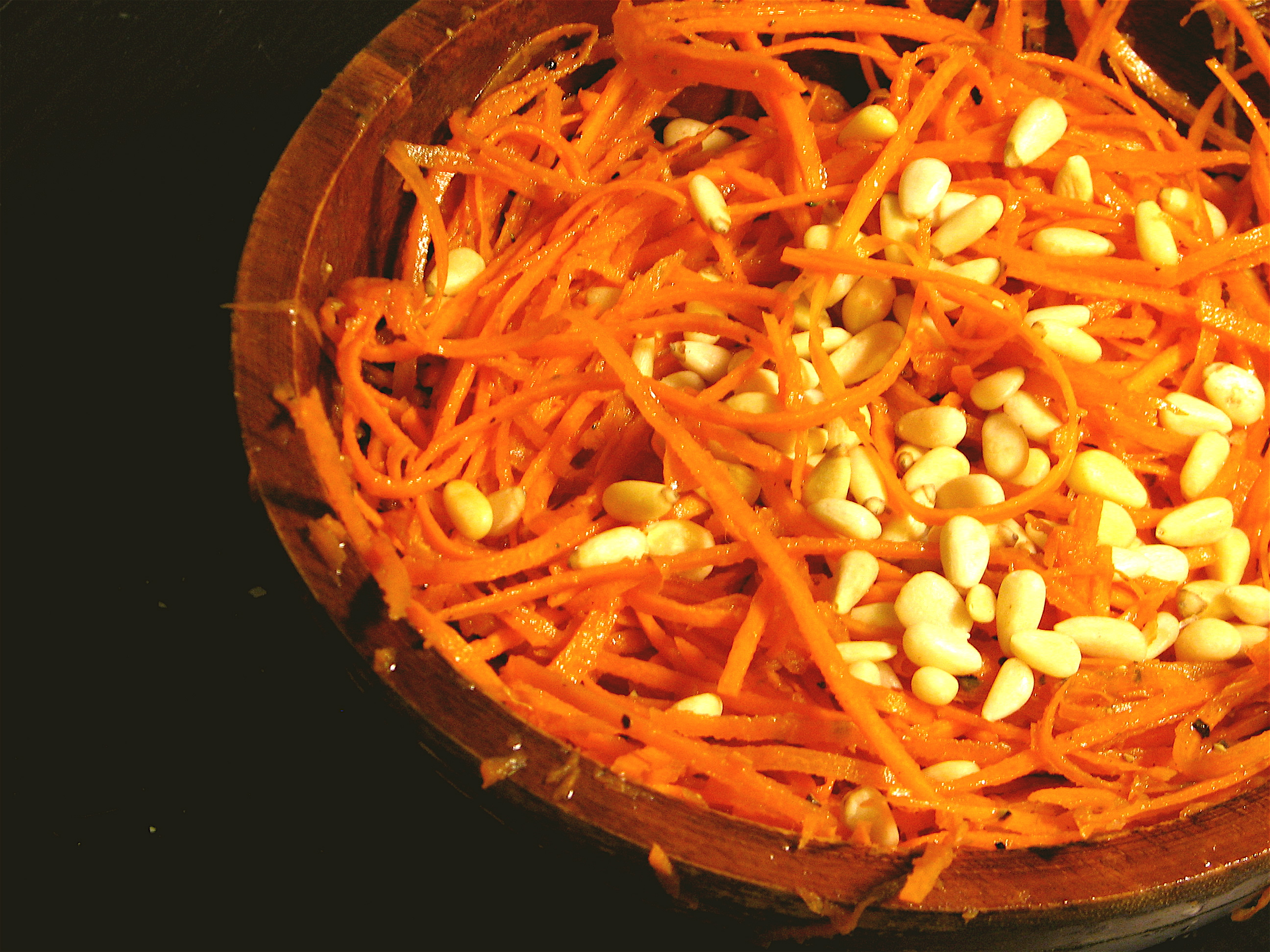 A carrot salad, made according to this recipe